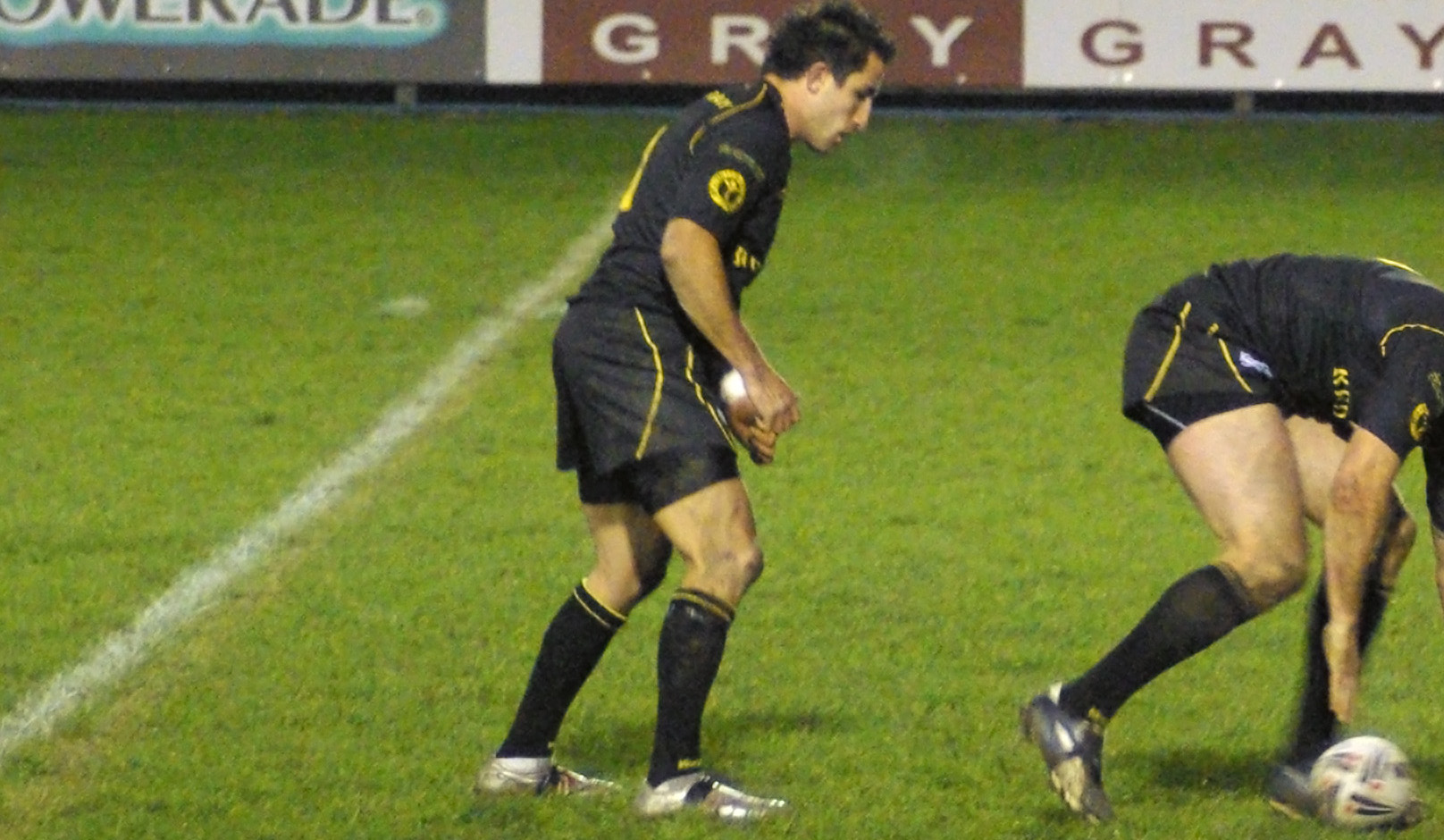 Telephoto test from a Celtic Crusaders game. It was an evening game so not great light. Also a good test of the highest iso settings.